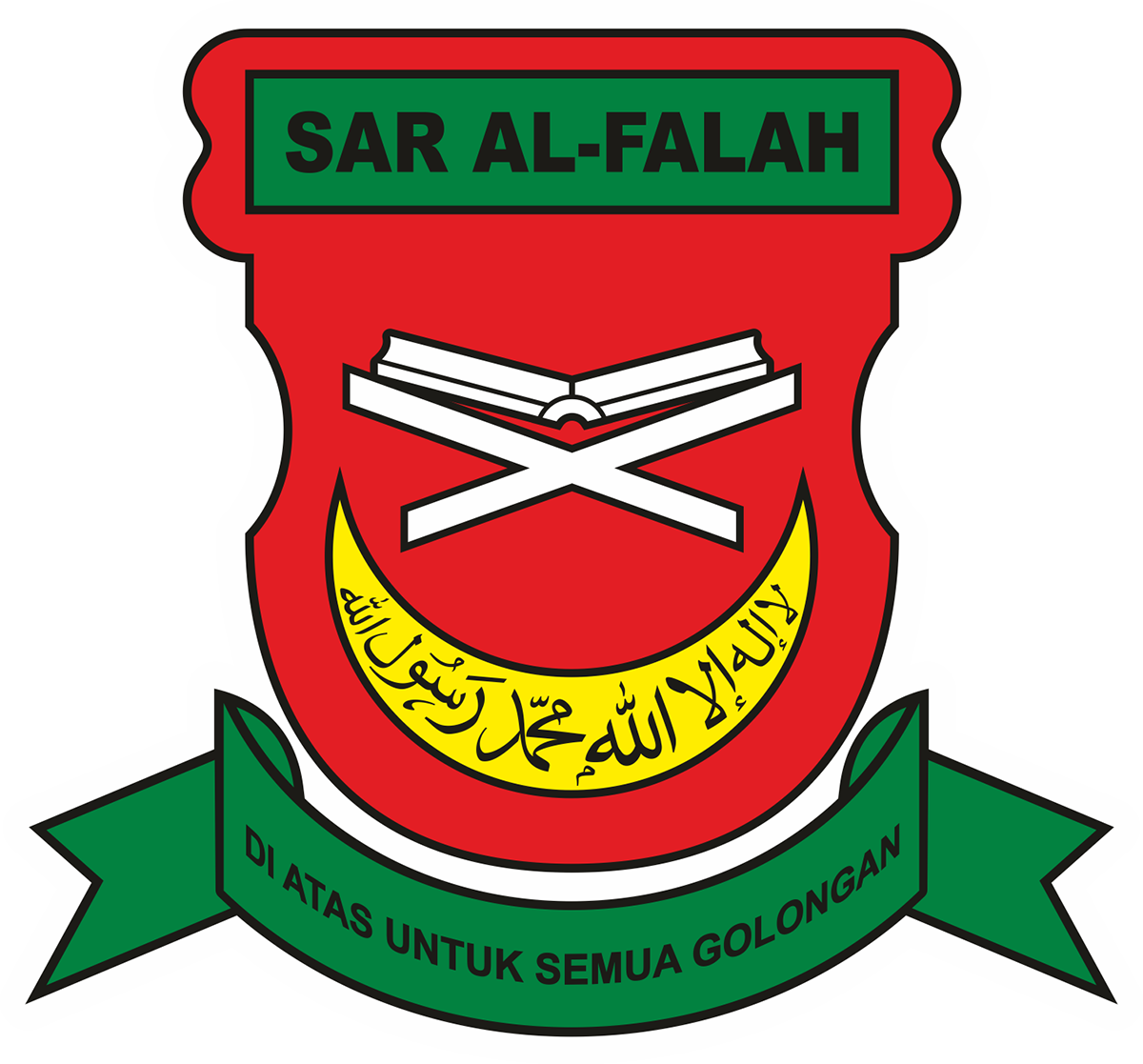 Logo Sekolah Agama Rakyat Al-Falah (Yayasan Al-Falah)